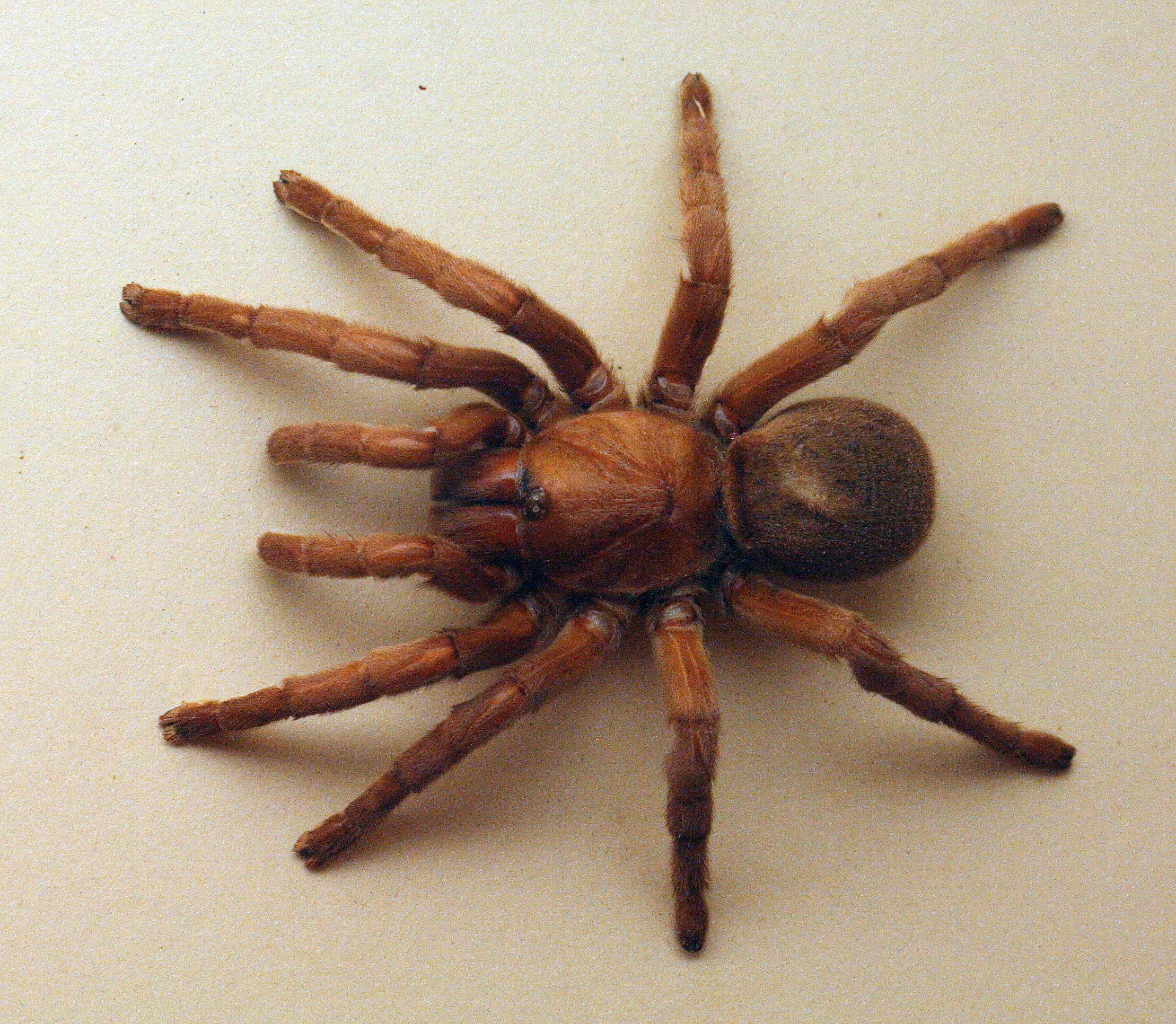 Specimen in the Australian Museum spider display.